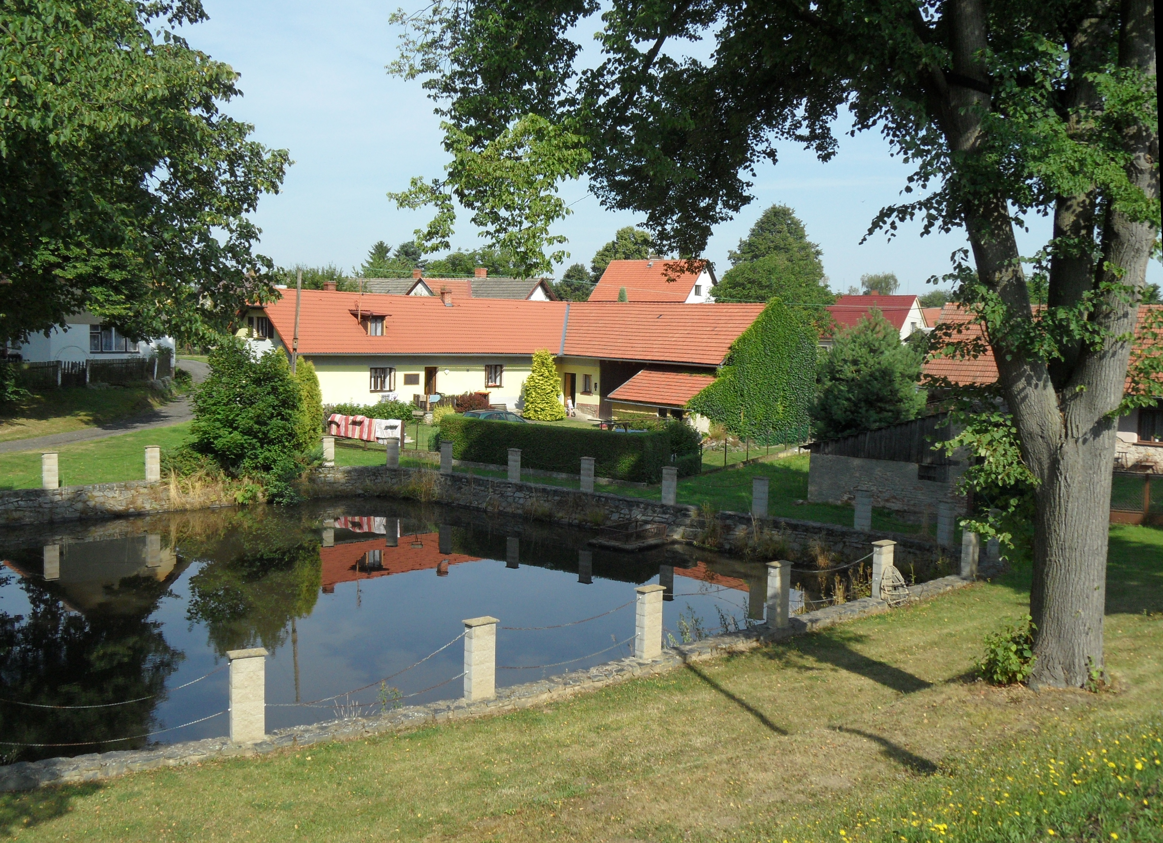 Černíny D. Small Pond and Houses Around, Kutná Hora District, the Czech Republic.